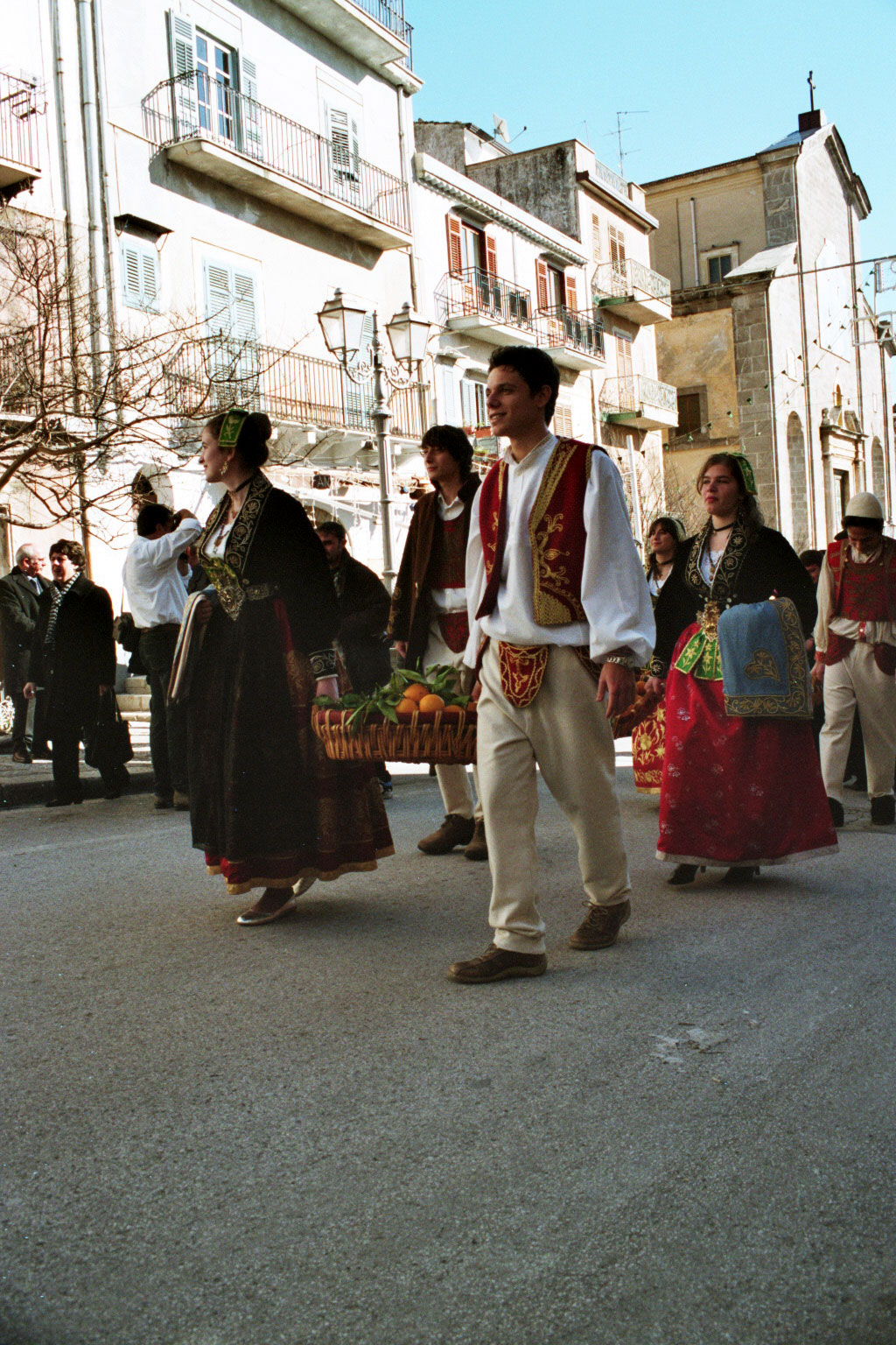 Piana degli Albanesi. Procession of Epiphany, 2007